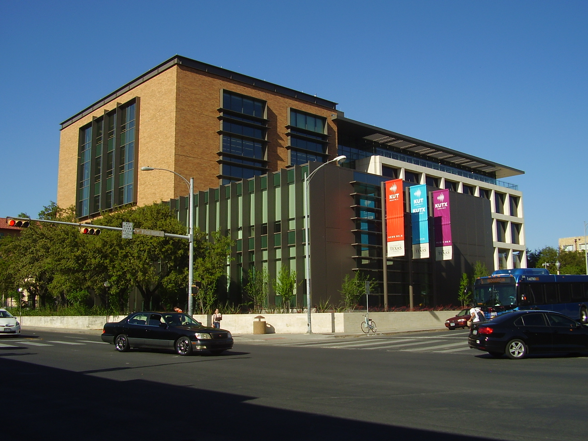 Belo Center for New Media (A0704) - KUT/KUTX building at UT Austin